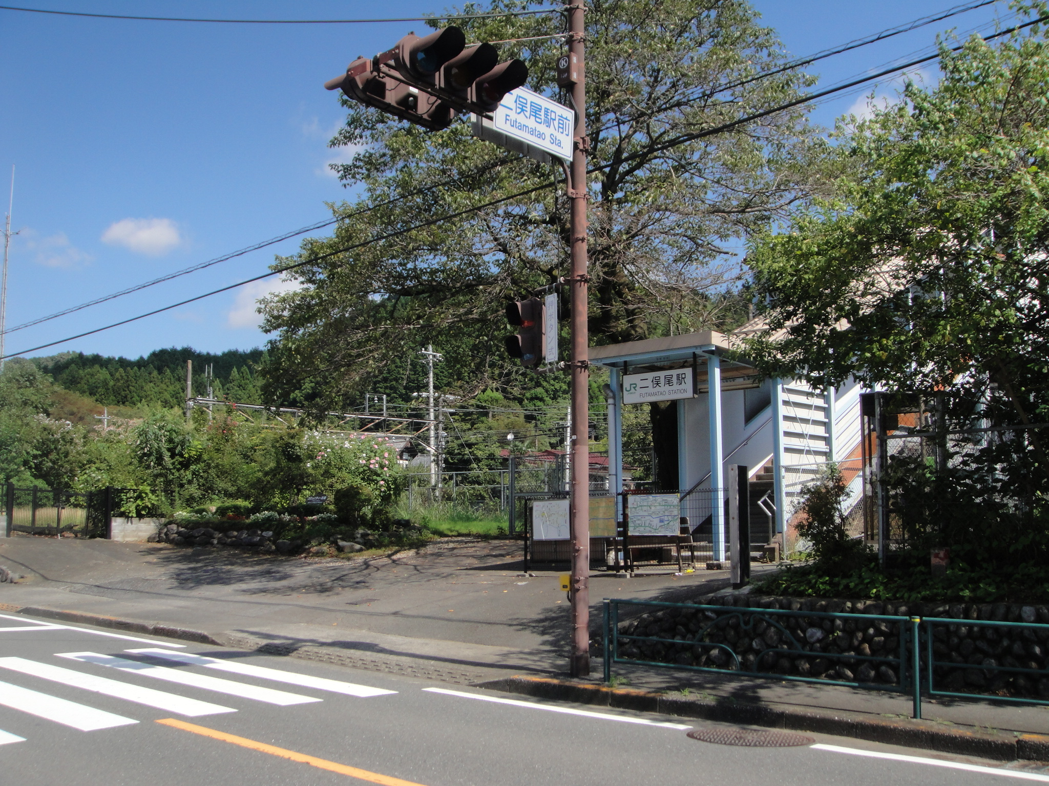 Futamatao Station on the Ome Line in Tokyo, Japan